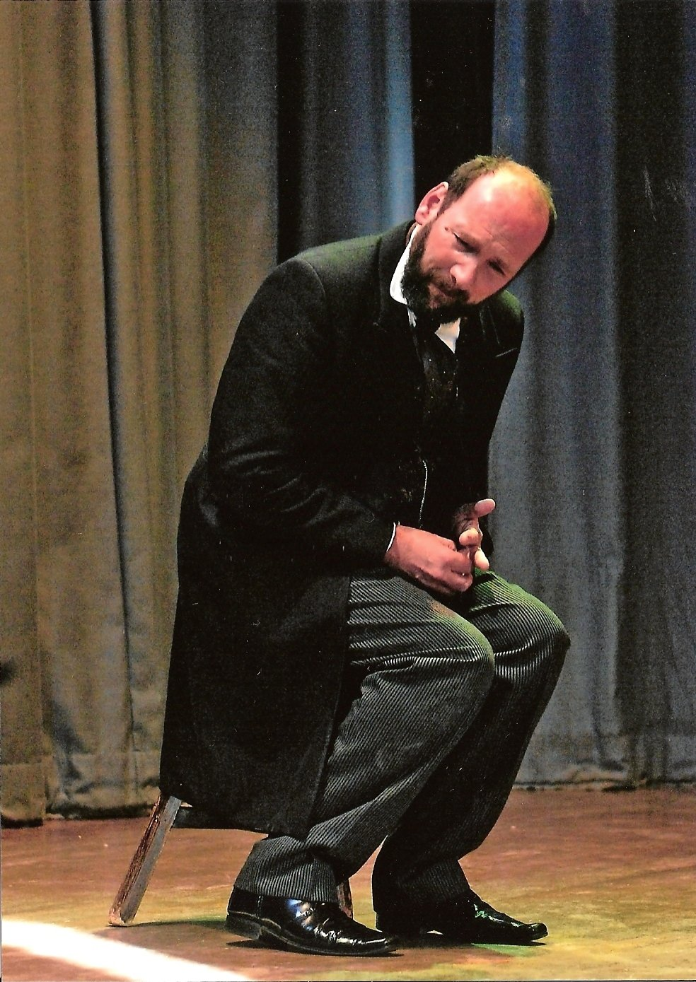 Photograph of the actor and performer Gerald Charles Dickens performing his one-man show of A Christmas Carol at the Knights Templar School in November 2010